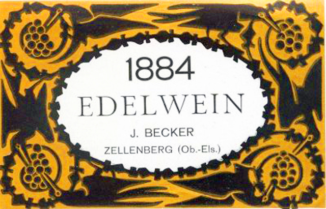 Alsace wine label 1884